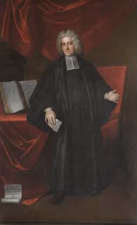 John King (c1655-1737)